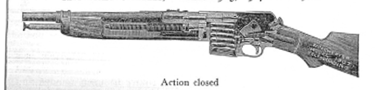 illustration of a Winchester Model 1907 rifle